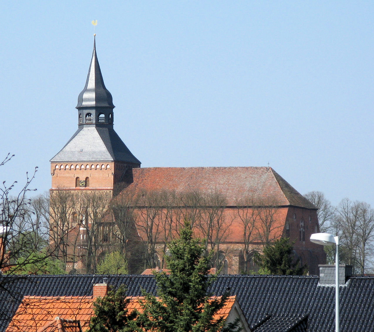 Church in Sternberg, disctrict Parchim, Mecklenburg-Vorpommern, Germany